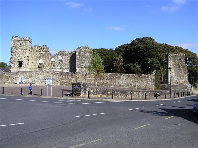 Manorhamilton Castle The castle was built as a baronial mansion during the plantation of Leitrim by Sir Frederick Hamilton in 1634. Hamilton proved to be a tyrant, noted for his cruelty to prisoners, many of whom he is known to have publicly hanged. After sustained rebellion the Castle was burned to the ground in 1652 by the native Irish, although not before Hamilton had taken the opportunity to burn Sligo town. more at